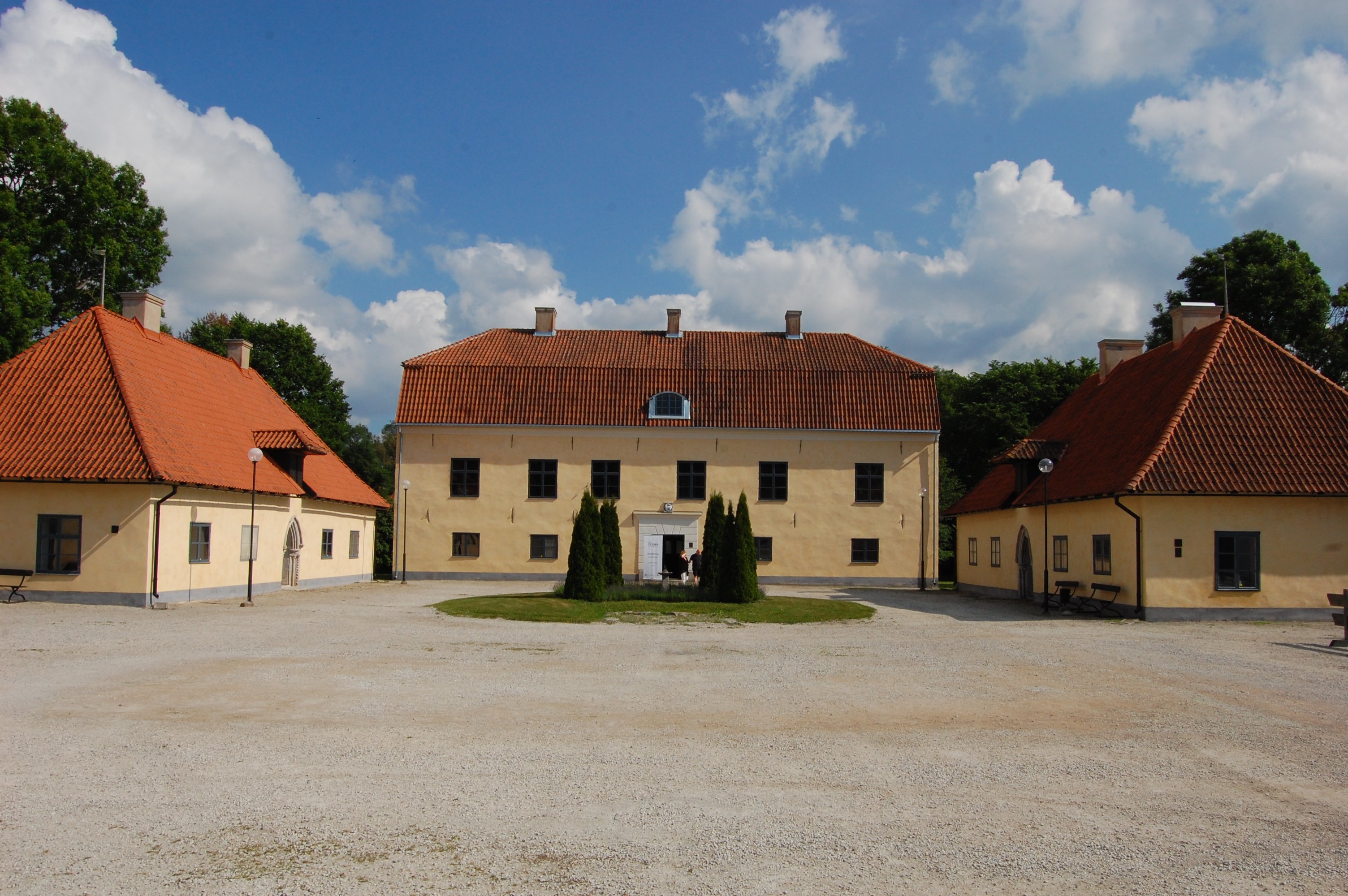 Roma kungsgård (crown estate) on Gotland, Sweden